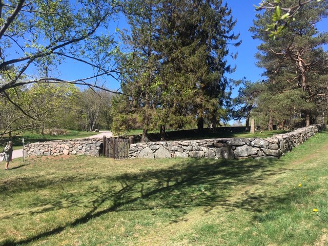 The cholera graveyard in Kallebäck in Gothenburg, established in 1866.